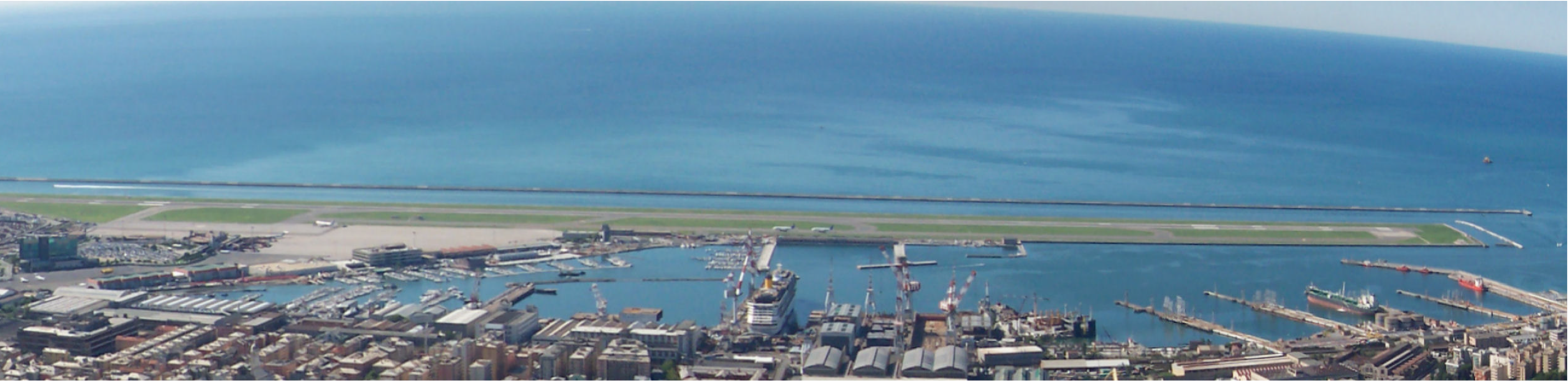 The basin before the Marina restyling